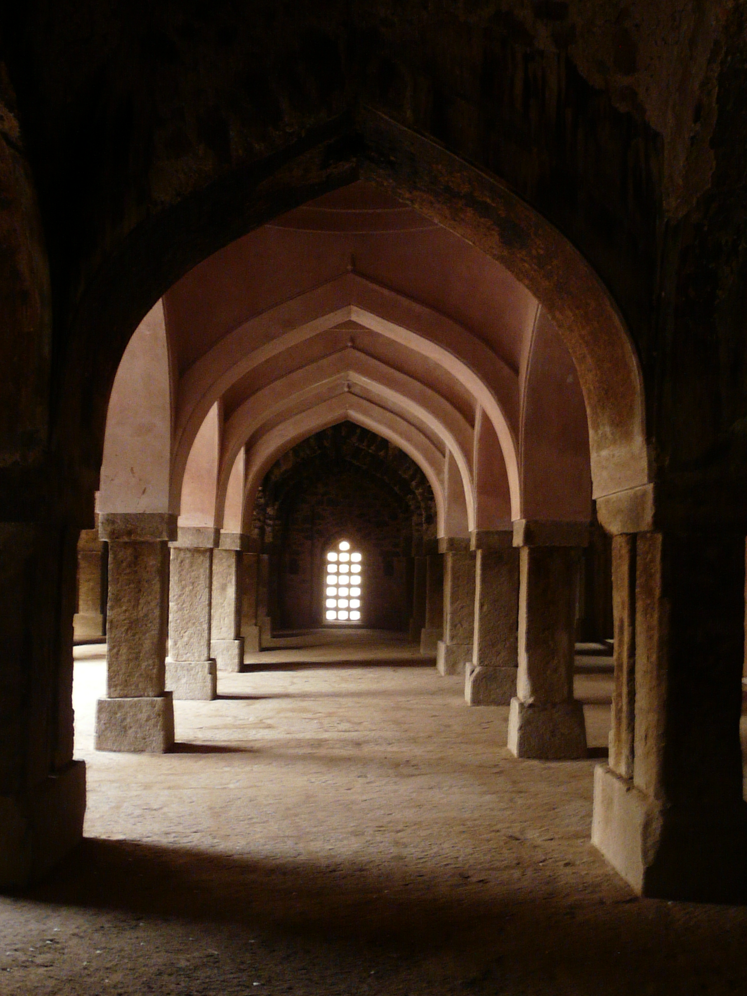 Looks like some conservation is happening!